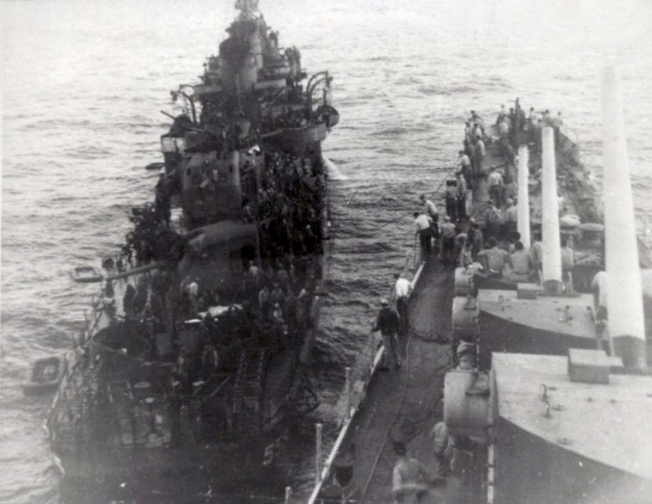 The U.S. Navy destroyer USS Haggard (DD-555) is assisted by the light cruiser USS San Diego (CL-53), after being hit by a kamikaze off Okinawa on 29 April 1945. Haggard did not sink but was not reparied and was scrapped after the war.